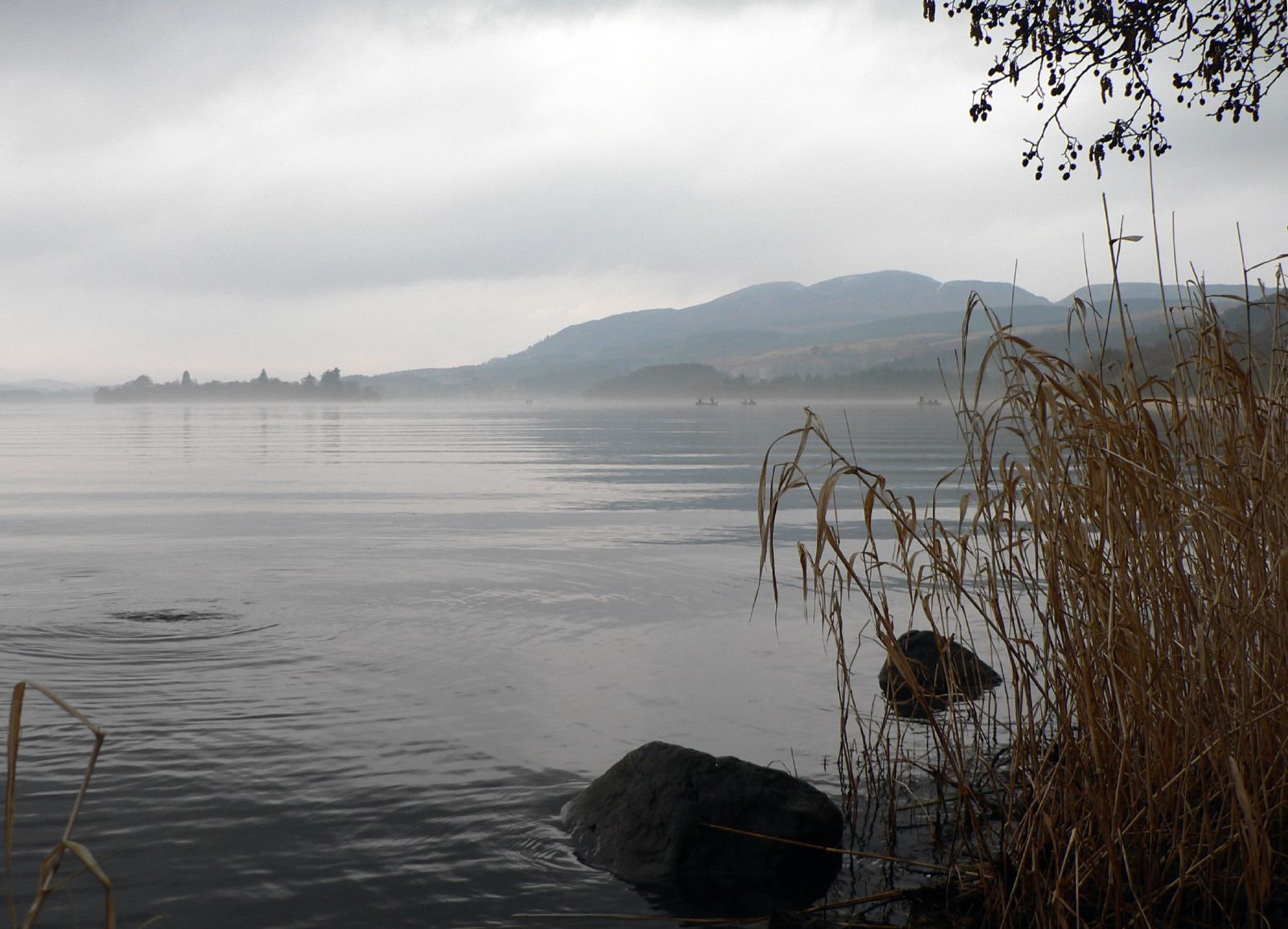 Lake of Menteith